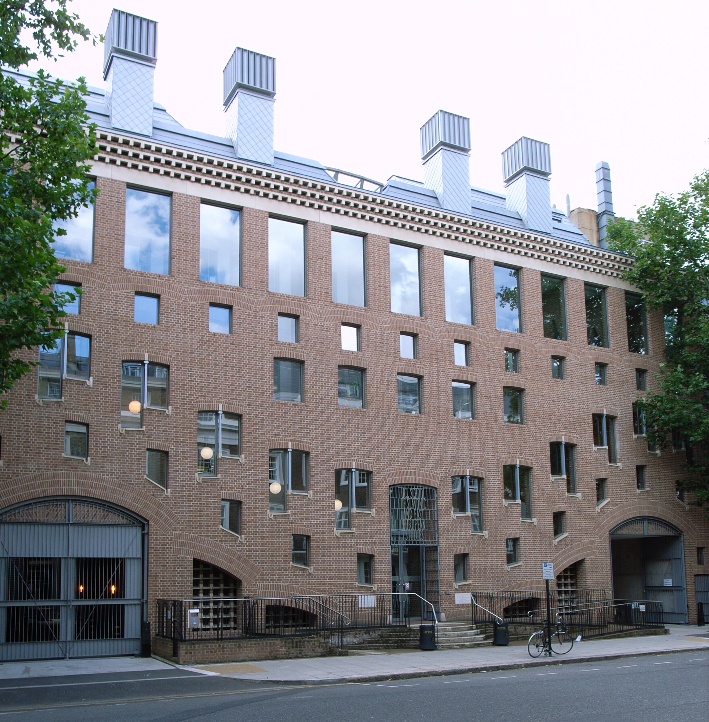 School of Slavonic and East European Studies (2003-05) by Short and Associates.